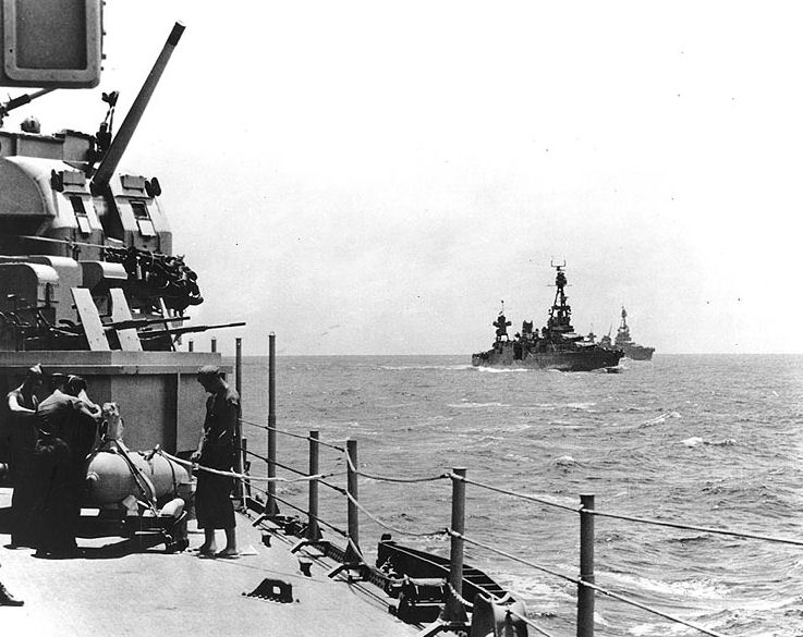 The U.S. Navy heavy cruisers of Task Force 18 at sea en route to Guadalcanal on 29 January 1943, prior to the Japanese night air attack off Rennell Island, photographed from USS Wichita (CA-45). USS Chicago (CA-29) is in the right center, with USS Louisville (CA-28) in the distance. Note men on Wichita's deck, working on a paravane.